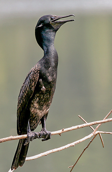 Indian Cormorant Phalacrocorax fuscicollis in Kolkata, West Bengal, India. (Bangla:Pankure)